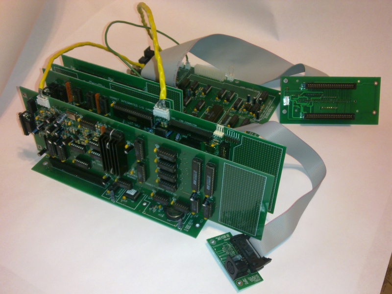 This is a sample of the GR8BIT kit assembled, out of the ATX chassis, with no external storage devices (like FDDs and HDDs) attached.